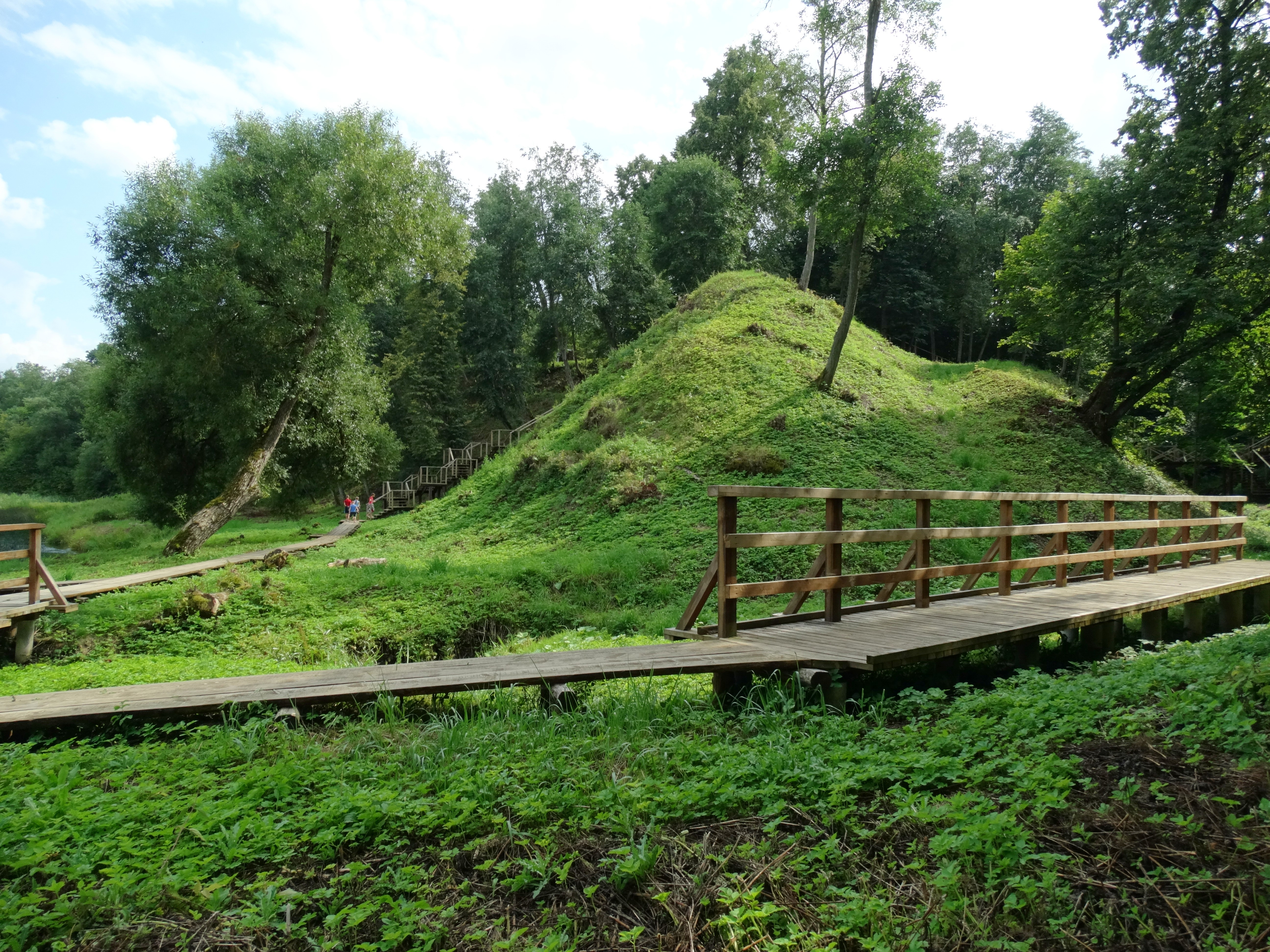 Jurakalnis by Papilė, Akmenė district, Lithuania